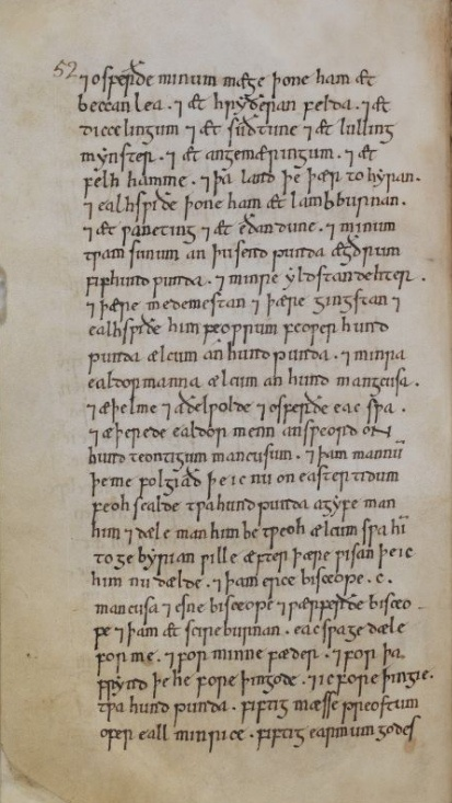 Will of Alfred the Great (New Minster Liber Vitae) - BL Stowe MS 944